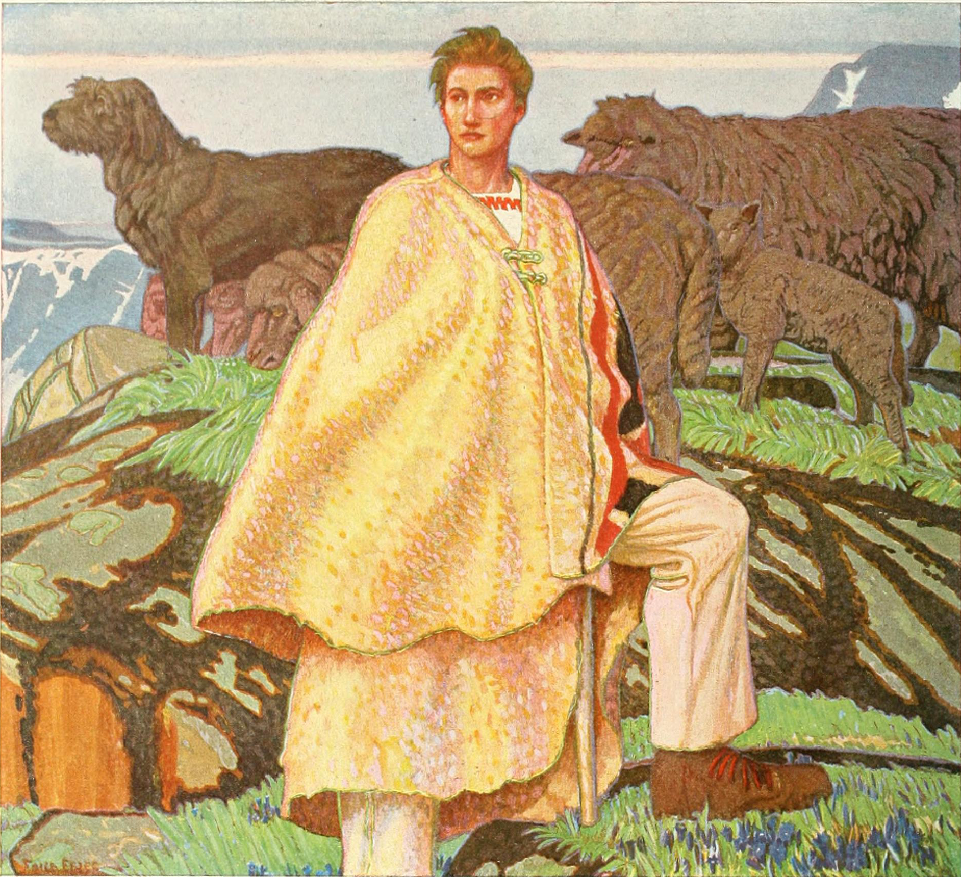 David.